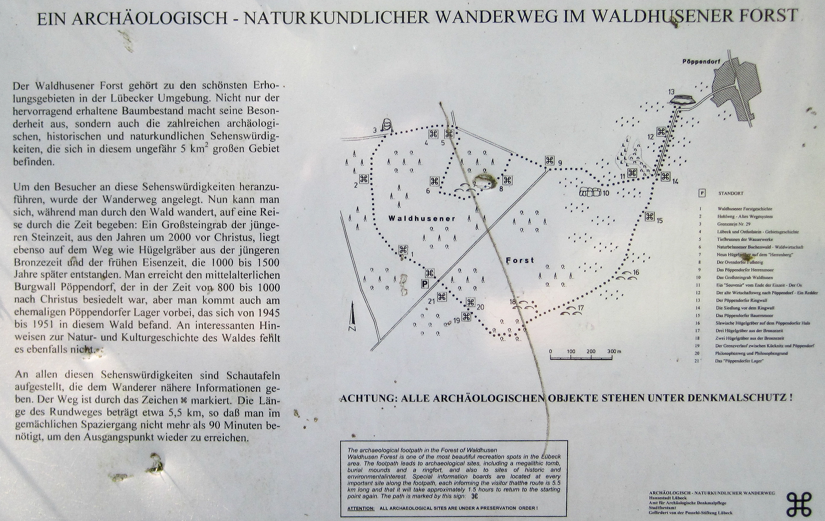 Map of the Waldhusen Forest in Lübeck-Kücknitz. No. 21 is the station in memory of Lager Pöppendorf.